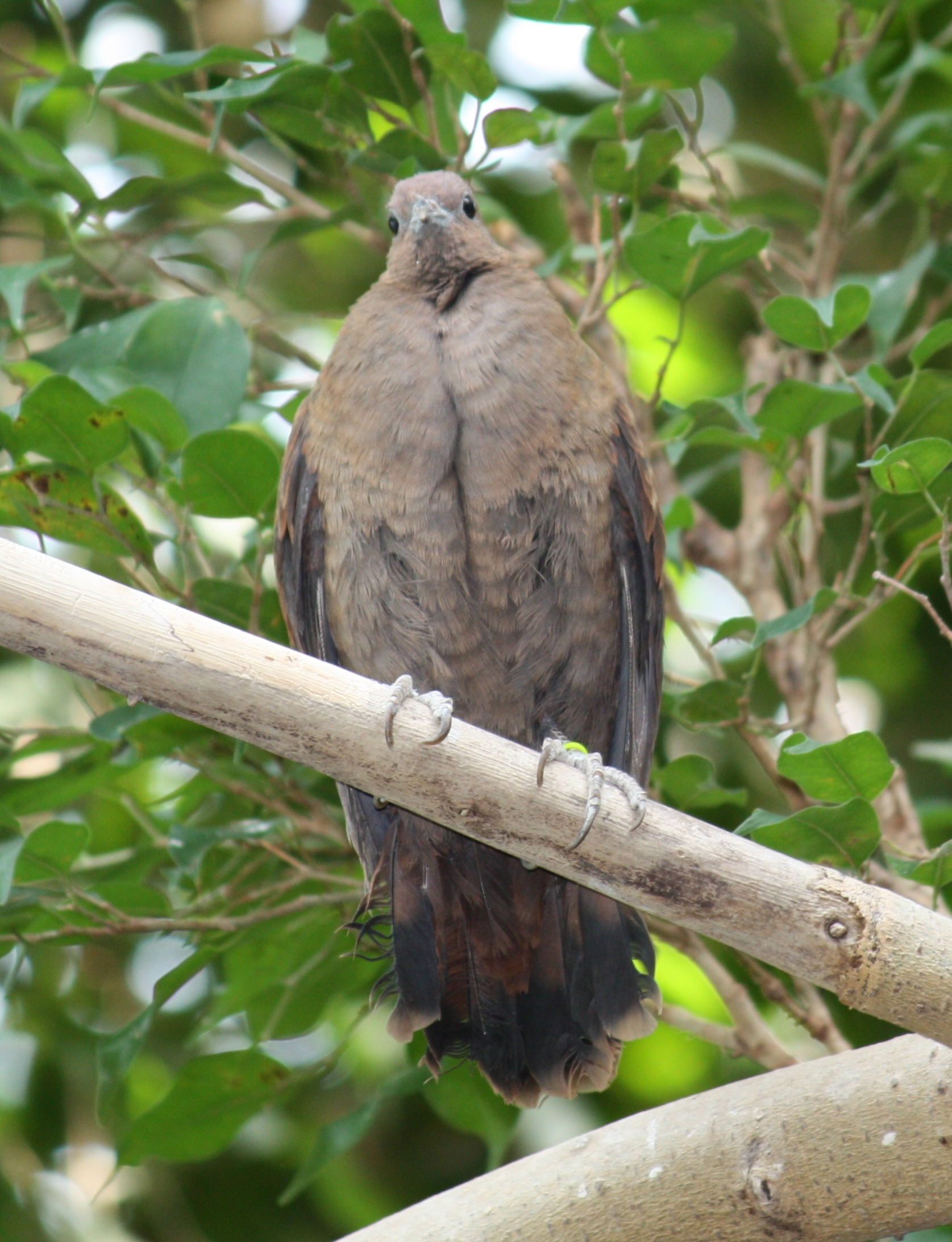 Female, White-throated ground dove (Gallicolumba xanthonura) at the Louisville Zoo